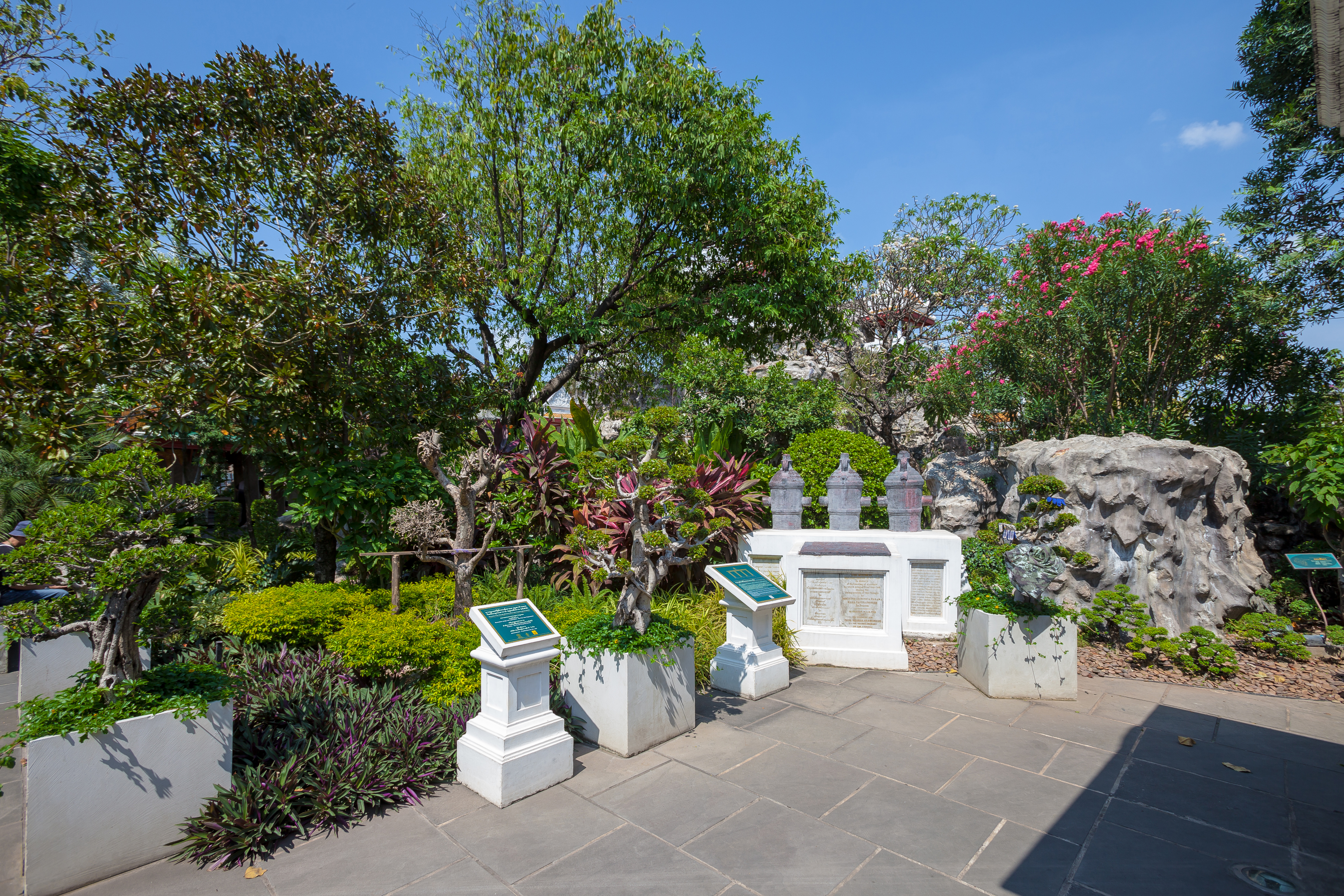 Khao Mo and the three canons statue at Wat Prayurawongsawat, BKK.